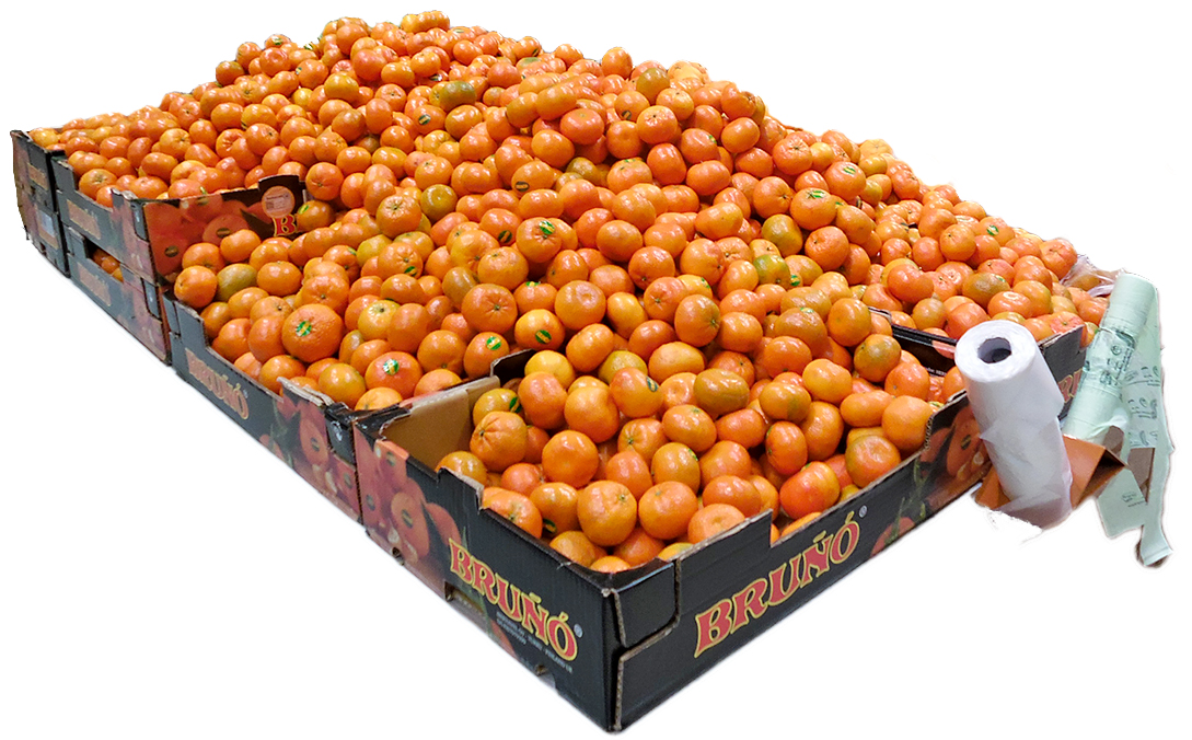 Clementines by Bruno and plastic bags in Prisma supermarket, Jyväskylä.